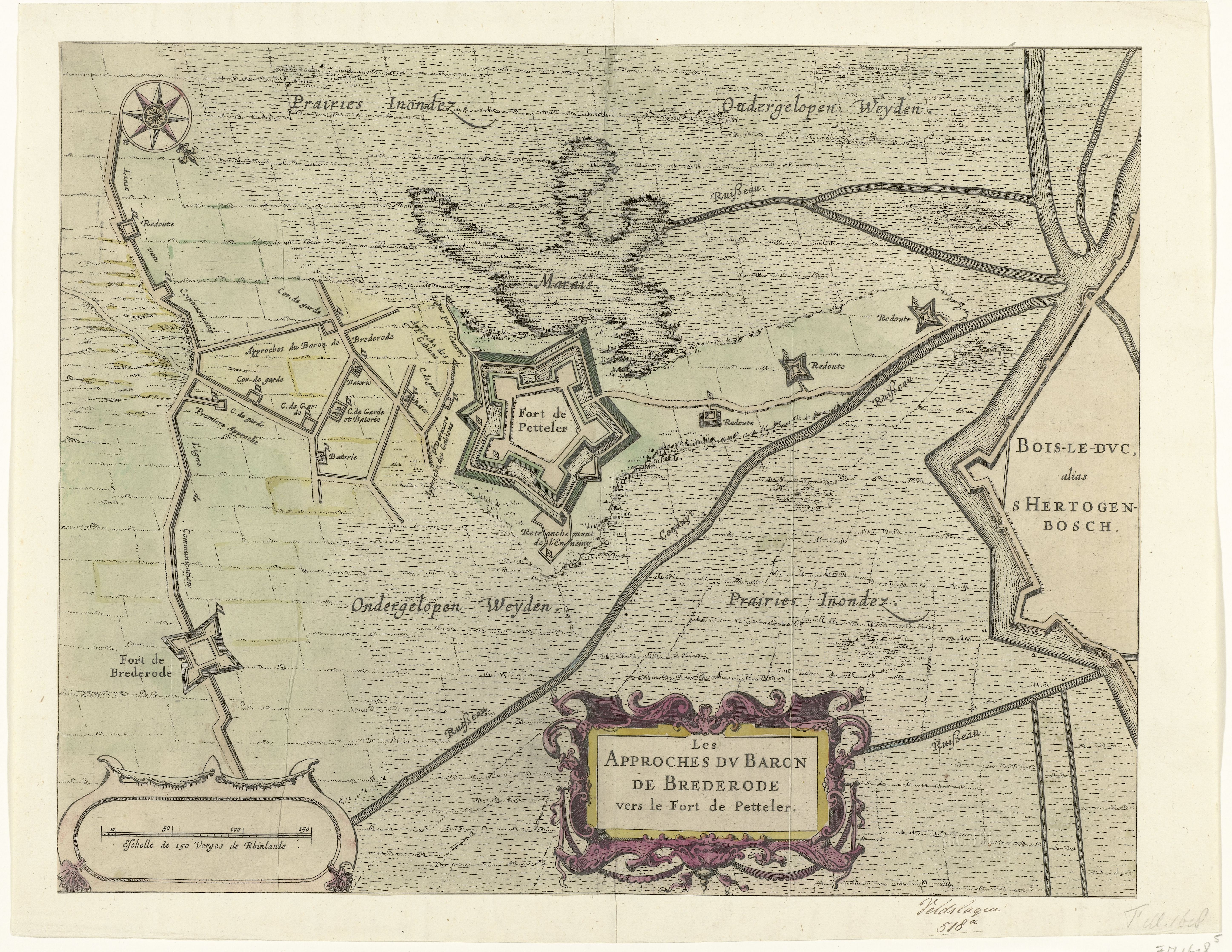 trenches approaching Fort Pettelaer during the siege of Den Bosch, 1629